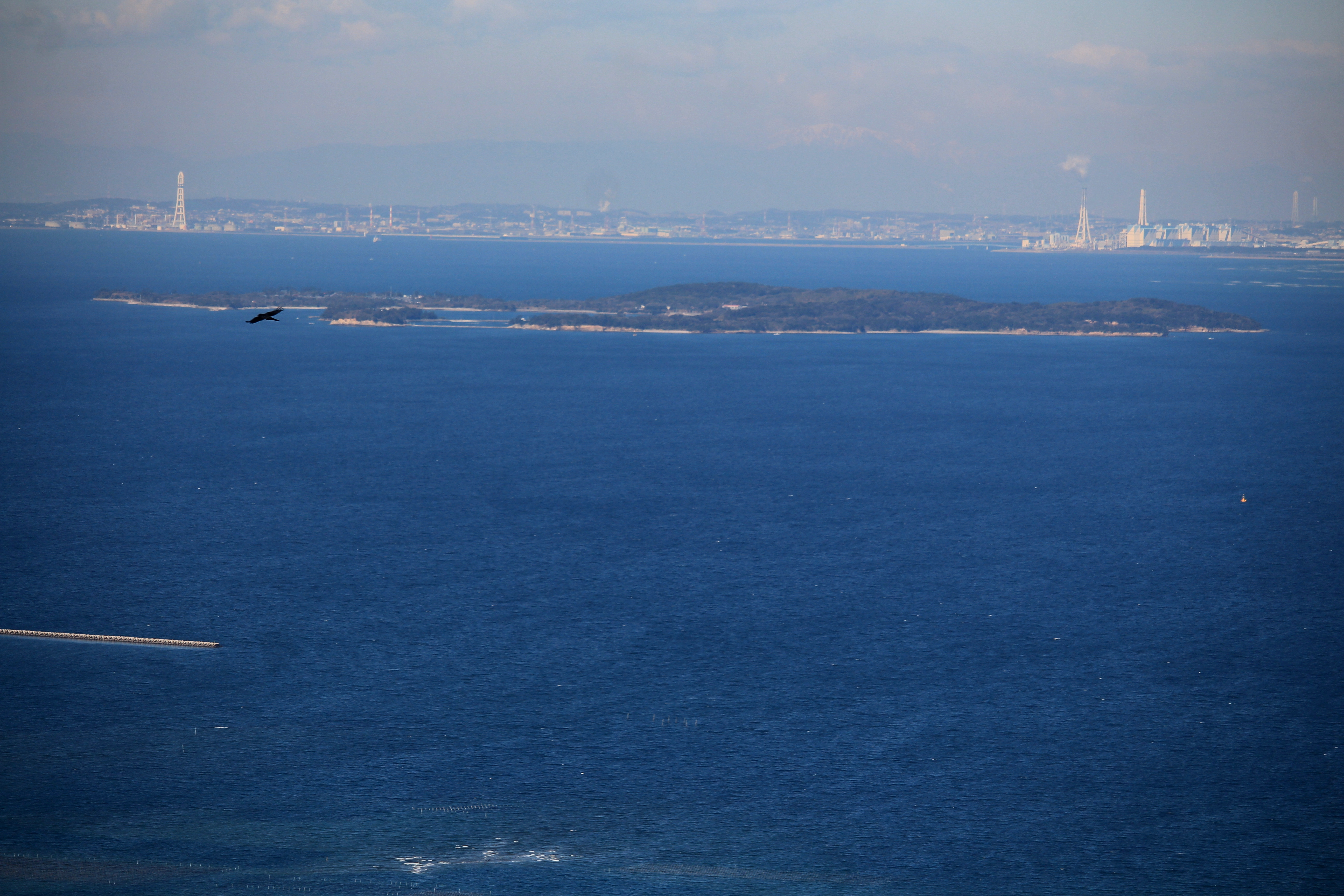 Mikawa Bay and Saku Island seen from Mount Amagoi in Aichi prefecture, Japan.